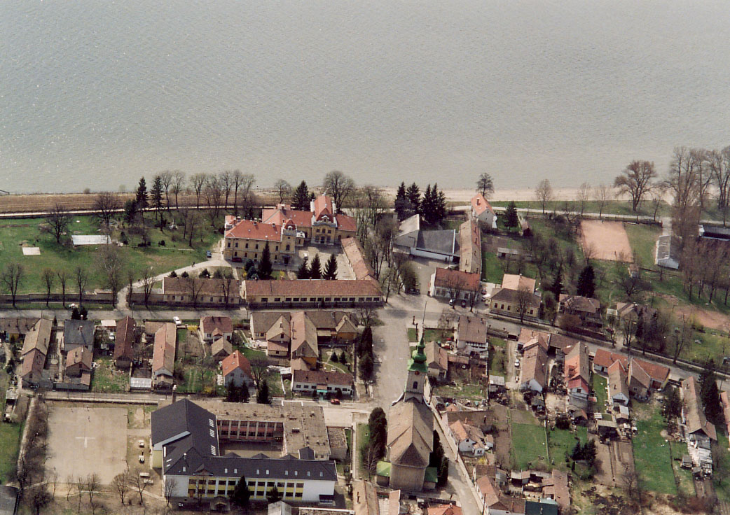 Szob, downtown. Include: Mansion now education building, Community Center, Library. Elementary school, Church and about a dozen dwellings Szob - Hungary - Europe